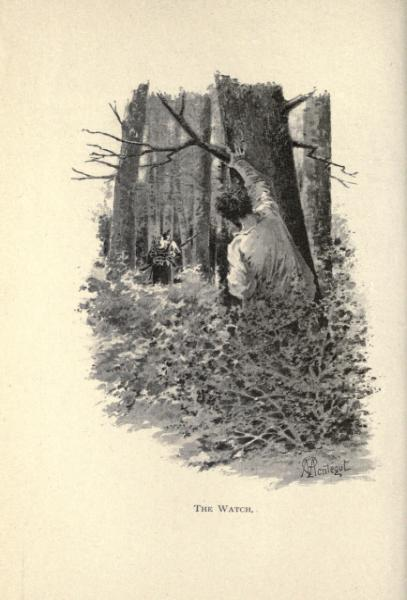 Artwork from the novel Robert Helmont by Alphonse Daudet